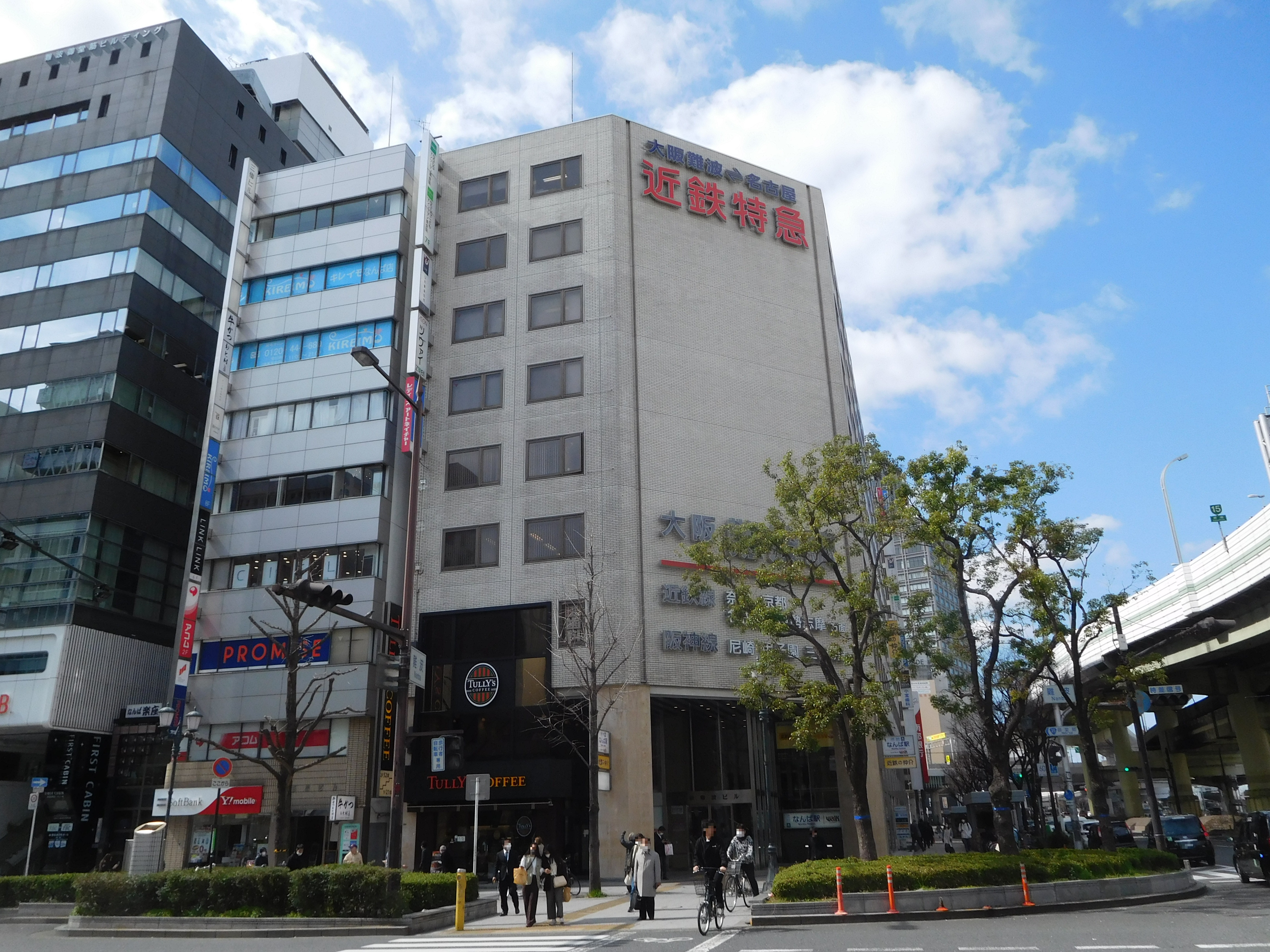 This is Osaka-Namba Station in Chuo ward, Osaka city, Osaka pref., Japan.